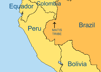 Location of the base for the Matis tribe